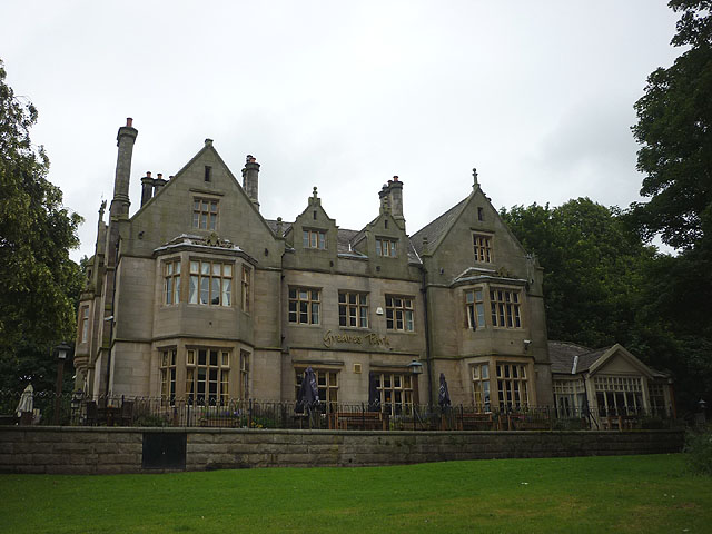 Photograph of Greaves Park, Lancaster, Lancashire